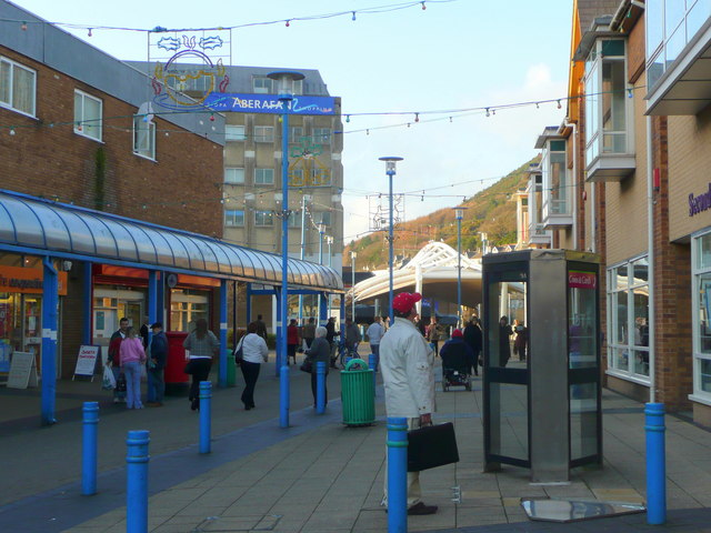 High Street, Port Talbot There are at least 20 people going about their business in this shot.